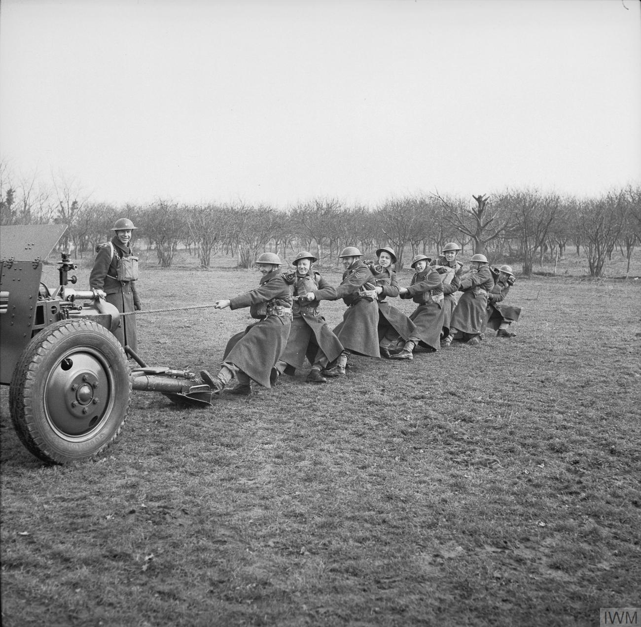 IWM caption : "Sport and Leisure during the Second World War. Men from Bolton Wanderers Football Club serving together with a battery of artillery (53rd Field Regiment, Royal Artillery, 42 Division, 11 Corps) at Beccles on the east coast of England. Photograph shows: the nine footballers in uniform pulling an artillery piece". Comment 1 : The men appear to be cleaning the barrel by pulling a "pull-through" through it, not towing it. Note rope coming out of breech and leading man's foot on the carriage's spade. However, pull-throughs were normally pulled through the muzzle, and far fewer men were needed. Comment 2 : This appears to show a US 75 mm M917 field gun, based on the British 18-pounder, transferred to Britain in World War II for training and home defence.